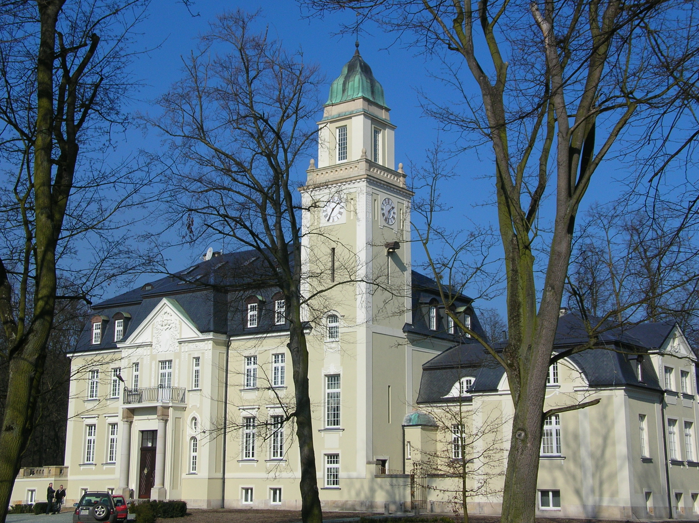 manor house in Borowa Oleśnicka, Silesia, Poland